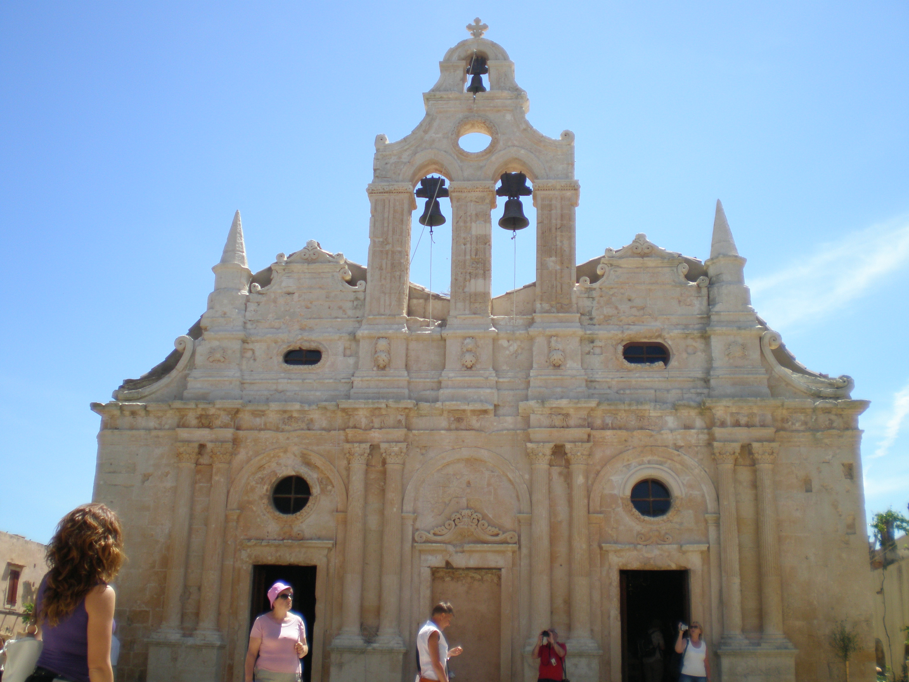 The monastery of Arkadi in Rethymno Prefecture, Crete.